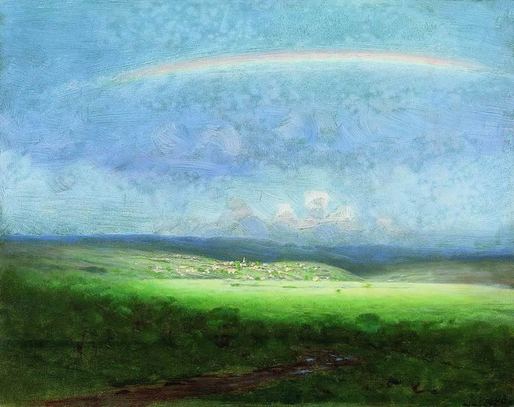 After a rain. Rainbow (painting by Arkhip Kuindzhi)